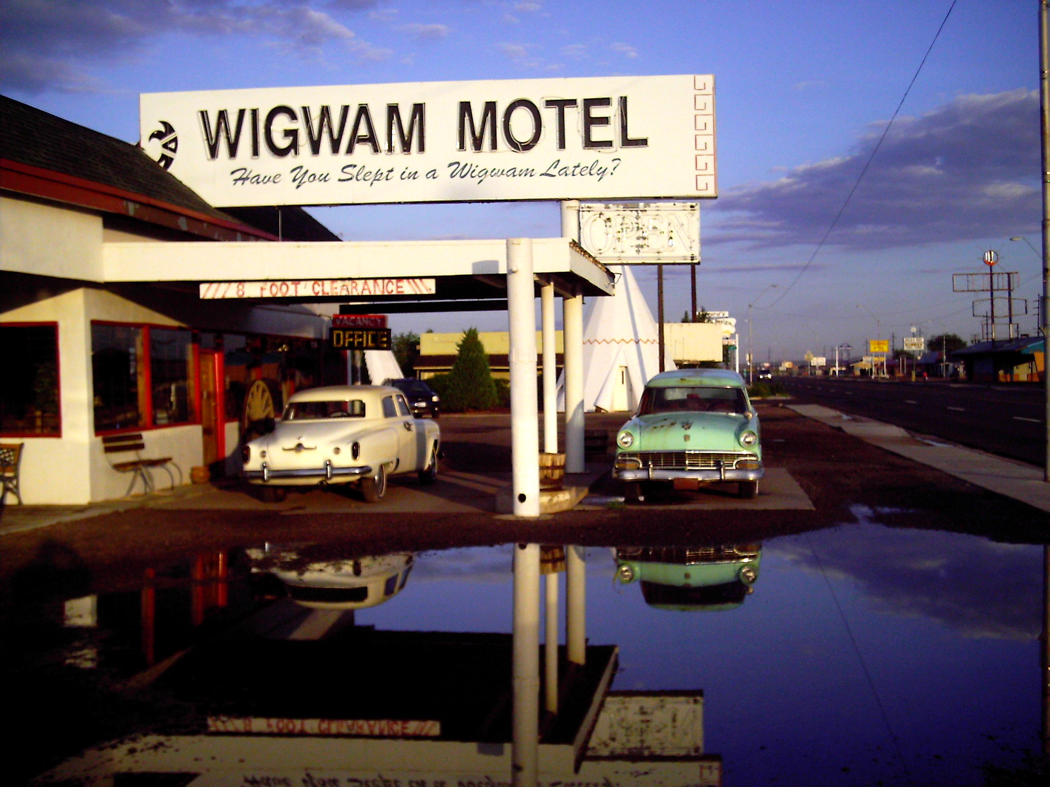 Wigwam Motel, Holbrook, Arizona, USA; Early morning shot of main office, August 2006.